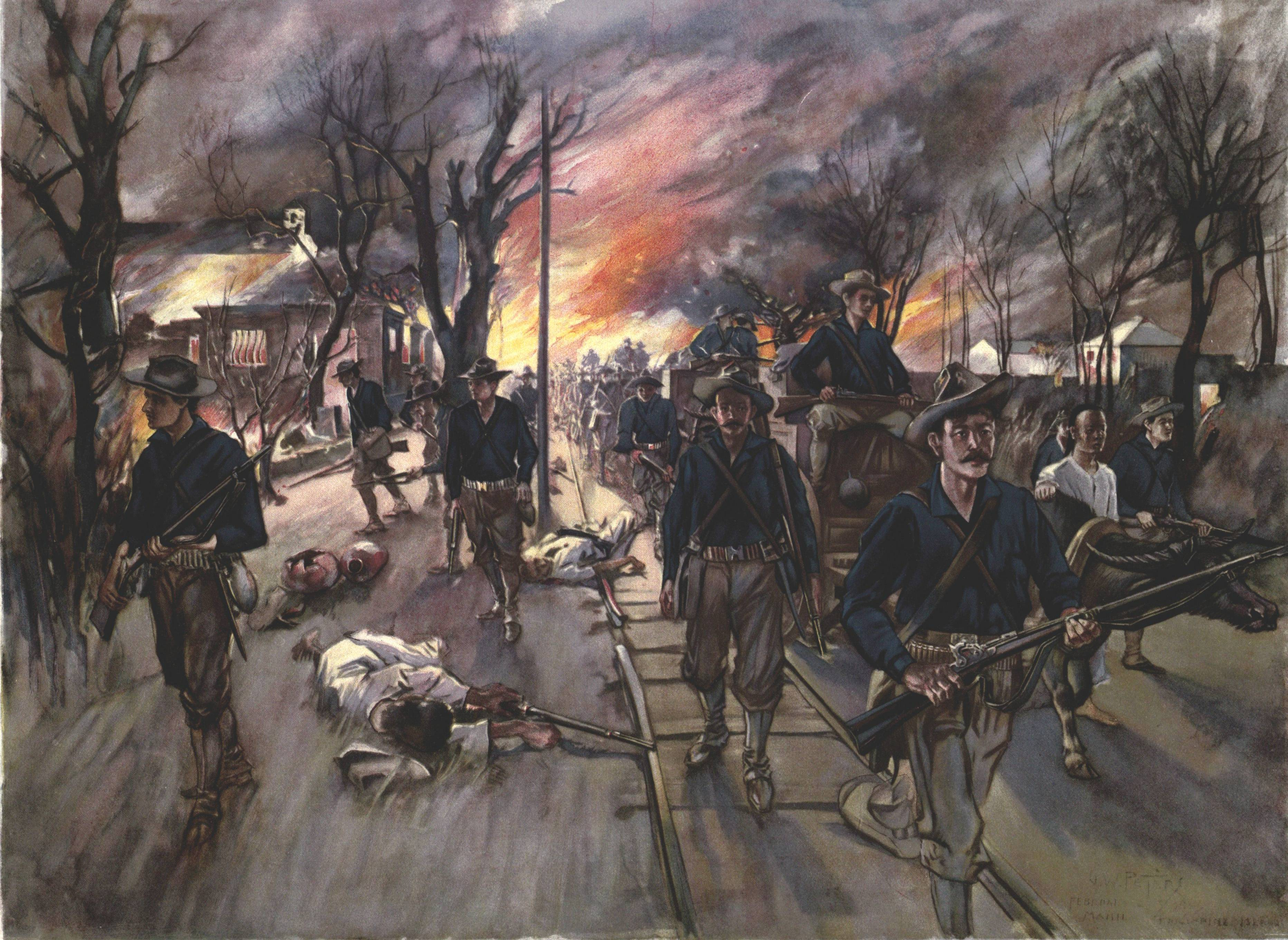 The ammunition train and reserves of the 20th Kansas Volunteers, Col. Frederick R. Funston, marching through Caloocan at night after the battle of February 10. From between p. 472 and 473 of Harper's Pictorial History of the War with Spain, Vol. II, published by Harper and Brothers in 1899.